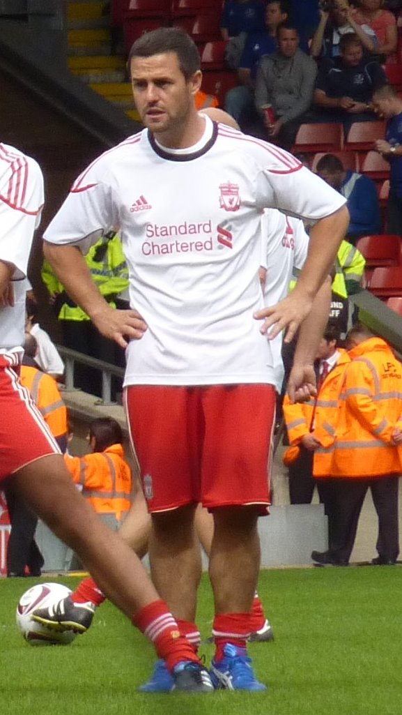 English football player, David Thompson, before Jamie Carragher Testimonial Match.